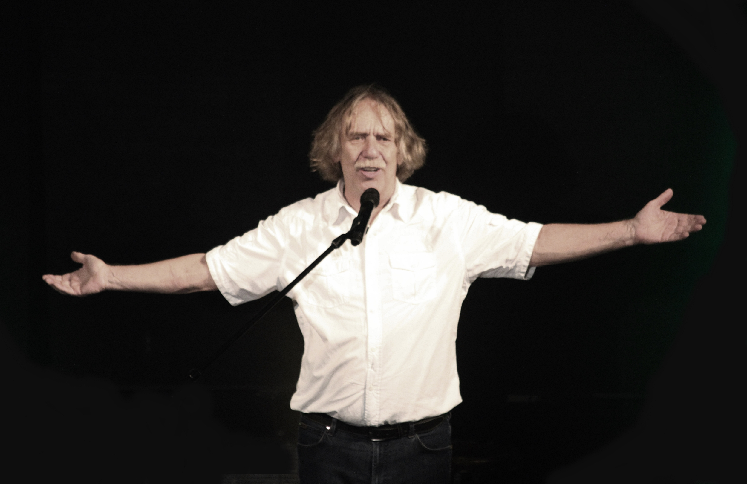 Jaromír Nohavica, concert Ostrawa-Poruba